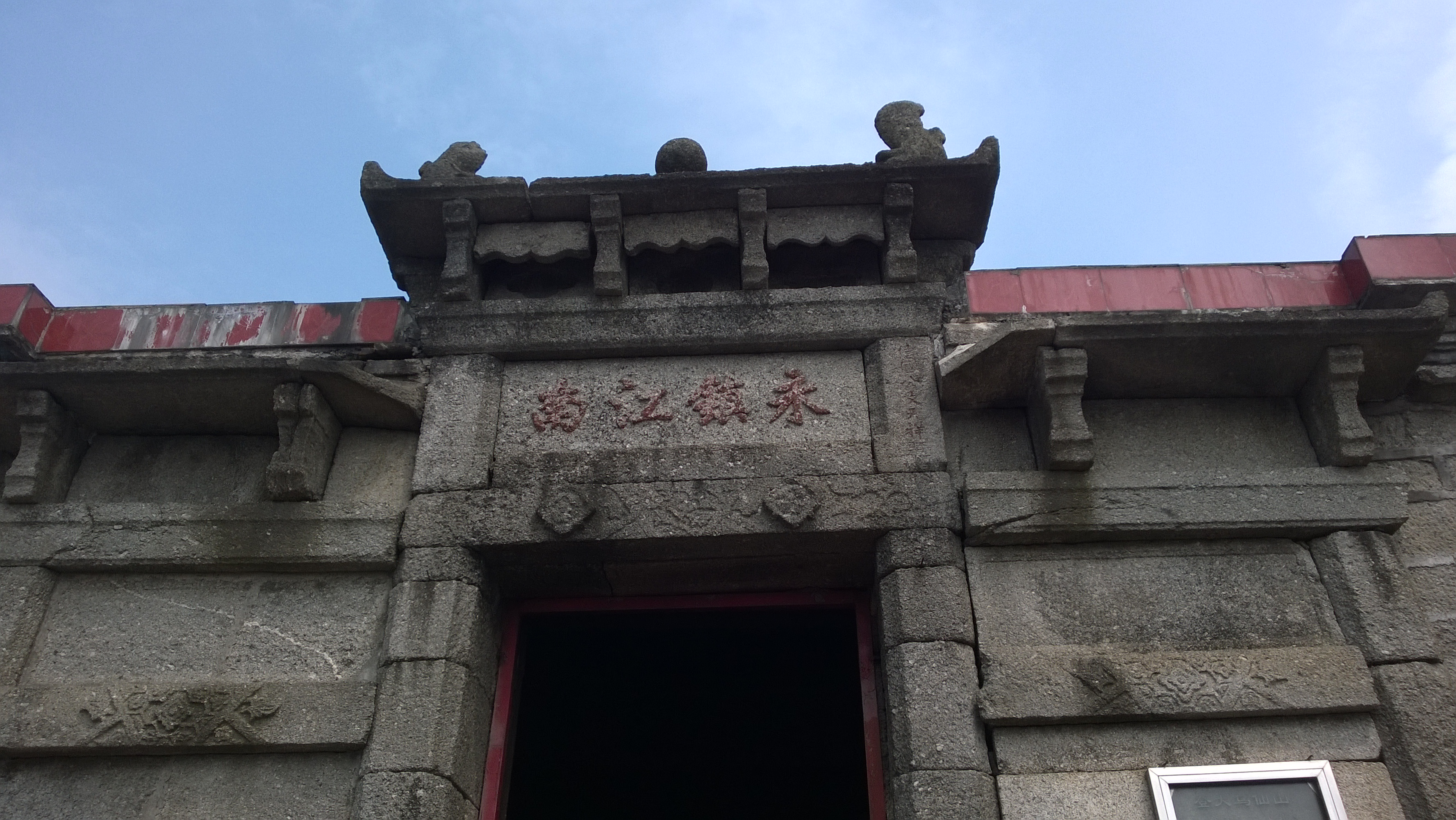 Yongzhen Jiangnan, written by Wen Tianxiang, on top of the Dawushan Mountain in Fengbian Township, Xingguo County.